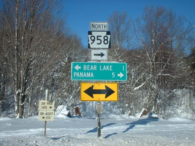 Pennsylvania State Route 958 at the intersection with Greeley Road (Warren County State Route 4007) in Freehold Township, just east of Bear Lake, Pennsylvania.